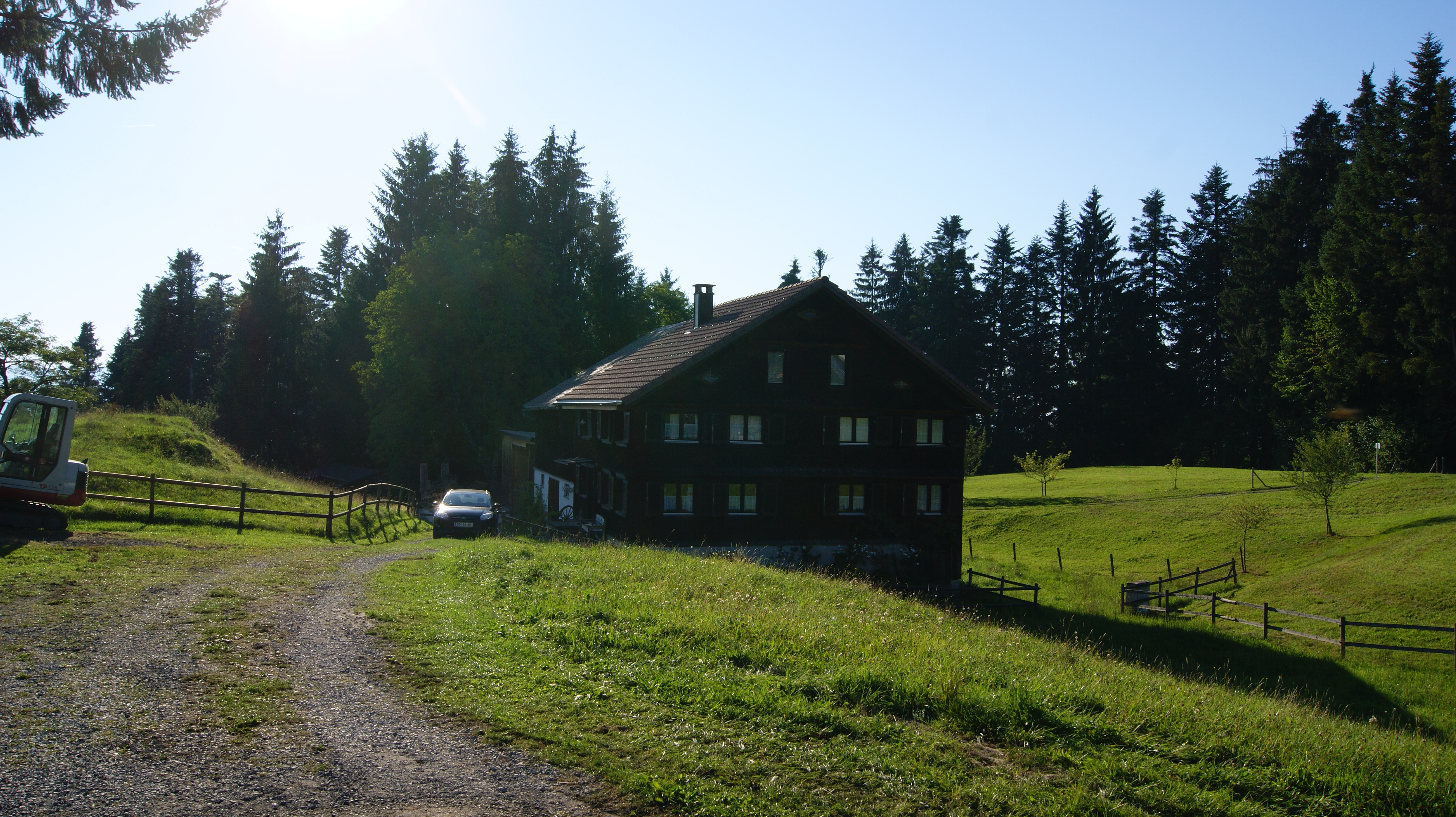 Farnach, municipality Bildstein, Vorarlberg, Austria. Old farmhouse, house no. 112th.